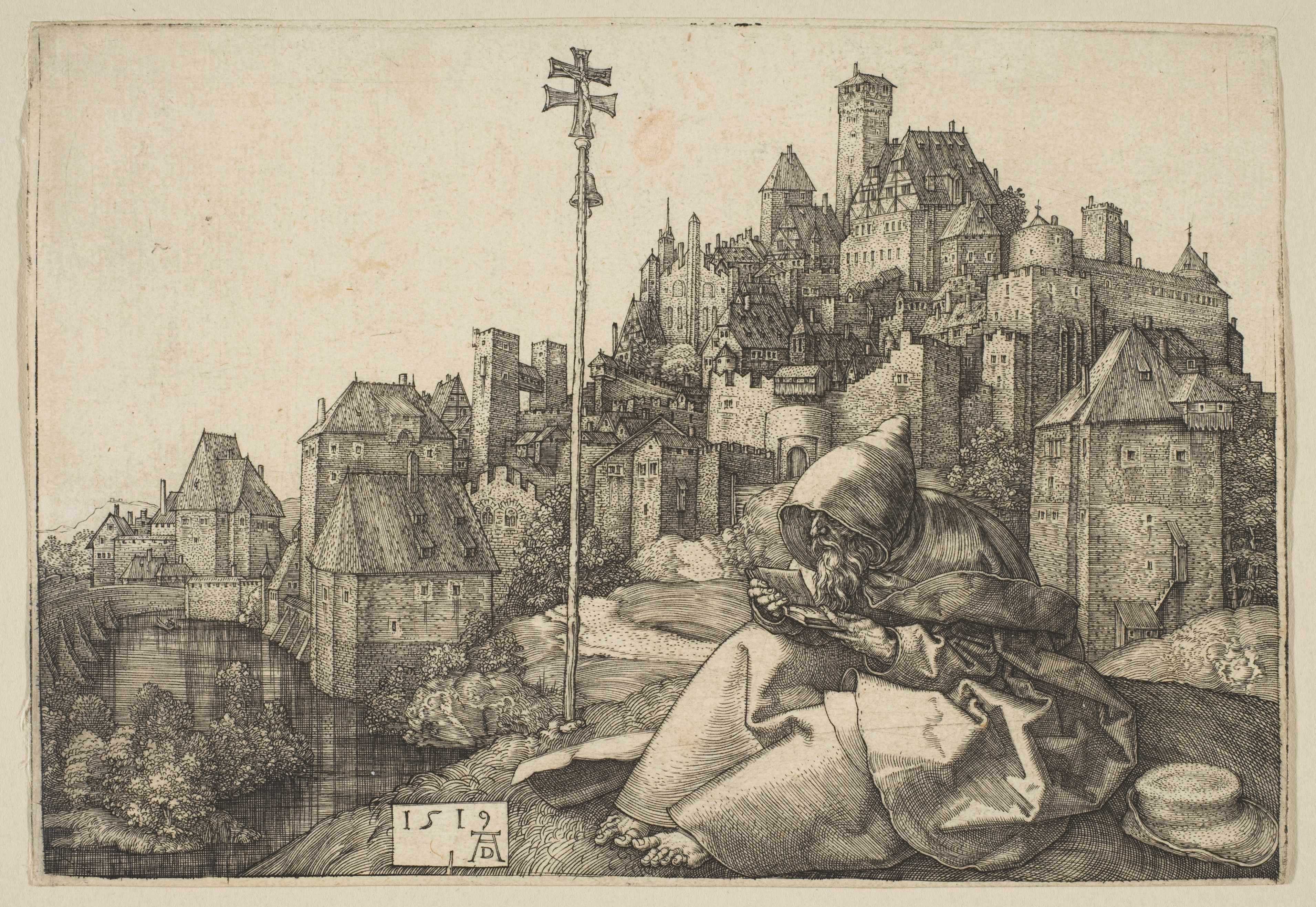 Saint Anthony the Great, (St. Anthony of Egypt, of the Desert, etc.), is regarded as the first Christian hermit. He was a favorite subject for artists. In this engraving, Dürer has juxtaposed the Saint with his cross and bible with the urban world he left behind him. Formally, the design of the monk echoes that of the city, suggesting that the hermit is a world unto himself. The cityscape itself is modeled on an earlier work by Dürer, the drawing Pupila Augusta. It is also seen in the background of his 1506 Feast of the Rose Garlands.